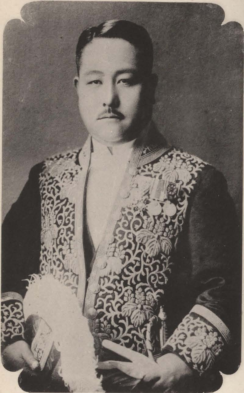 Abe Hiroshi, a Japanese bureaucrat